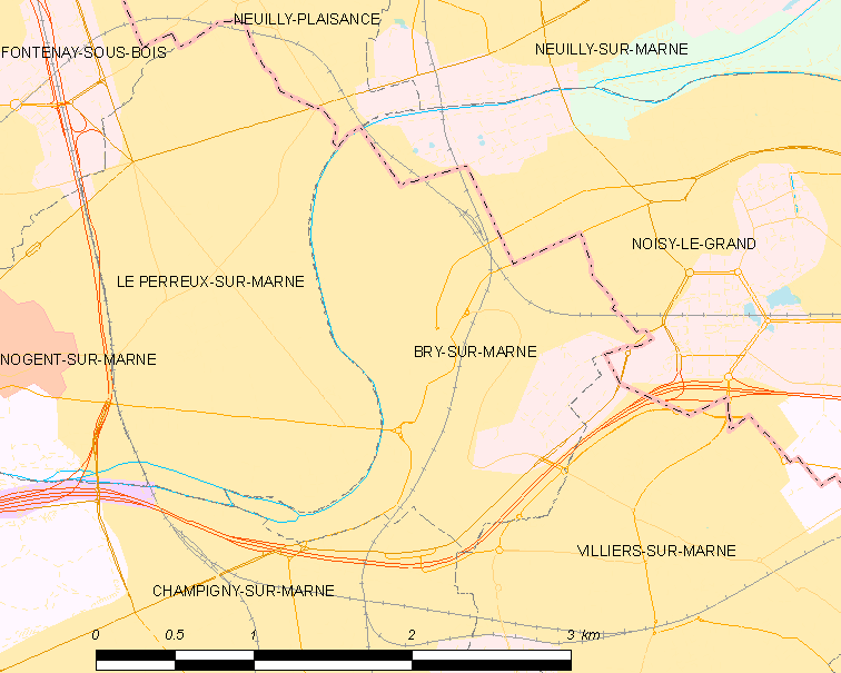 Map of French municipality Bry-sur-Marne